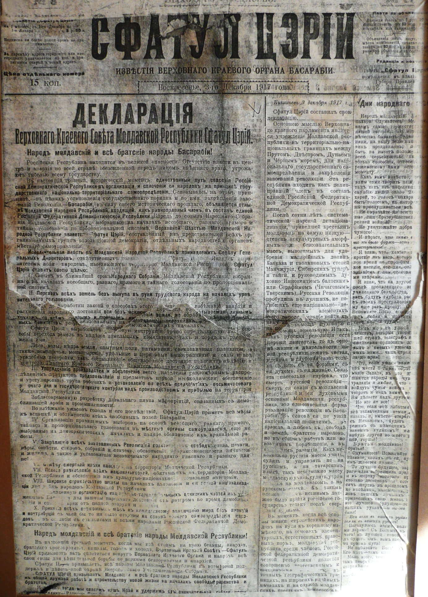 Декларация о провозглашении Молдавской Народной Республики 1917